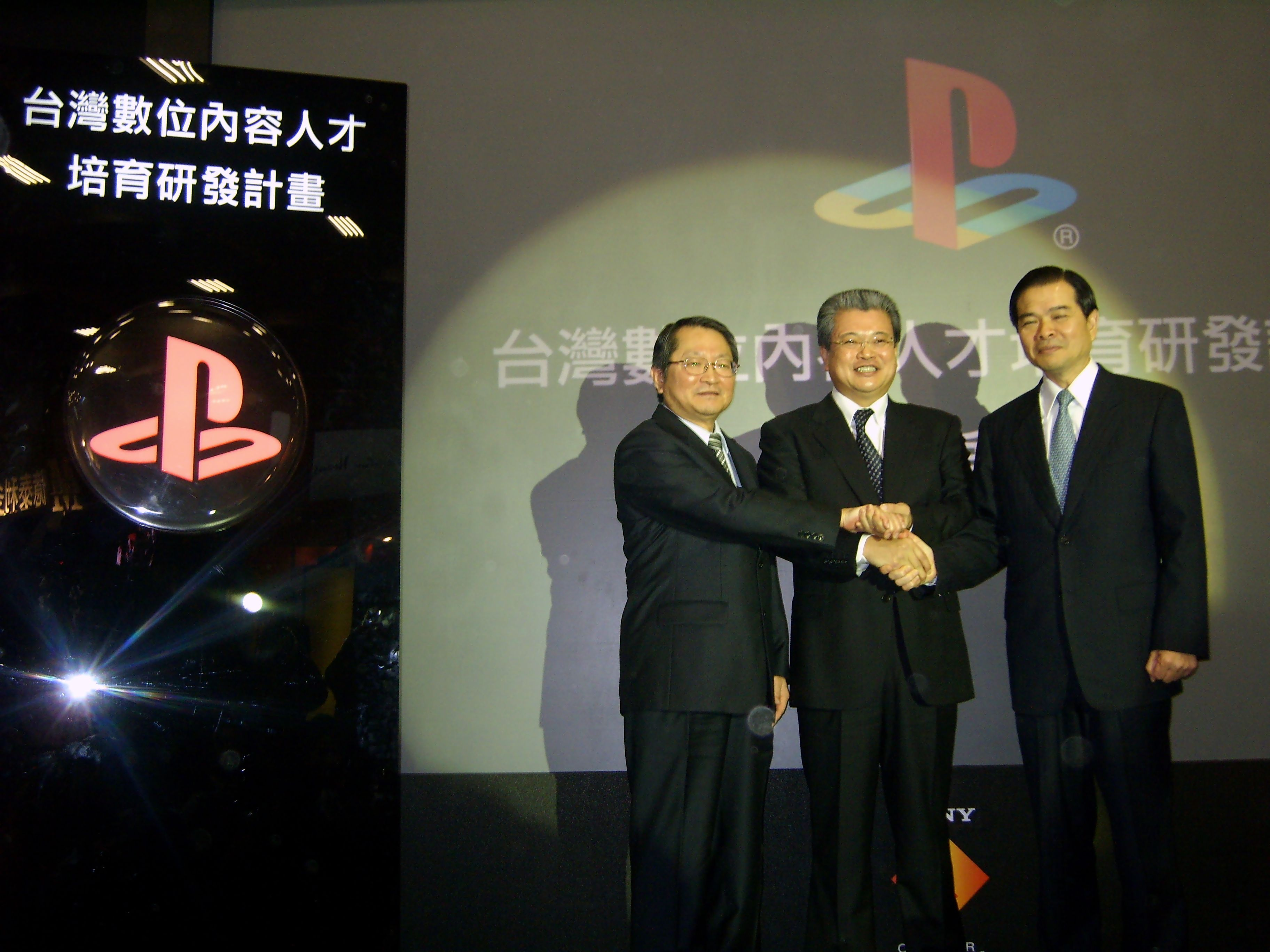 2008 Taipei Game Show: Launch of "Digital Content Talent Development in Taiwan" by Sony Computer Entertainment Taiwan Limited and Ministry of Economic Affairs of the Republic of China.